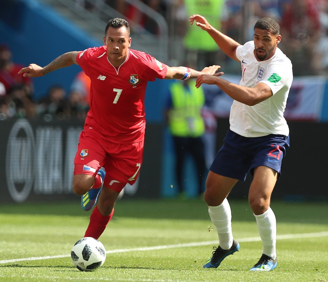 Blas Pérez, Ruben Loftus-Cheek